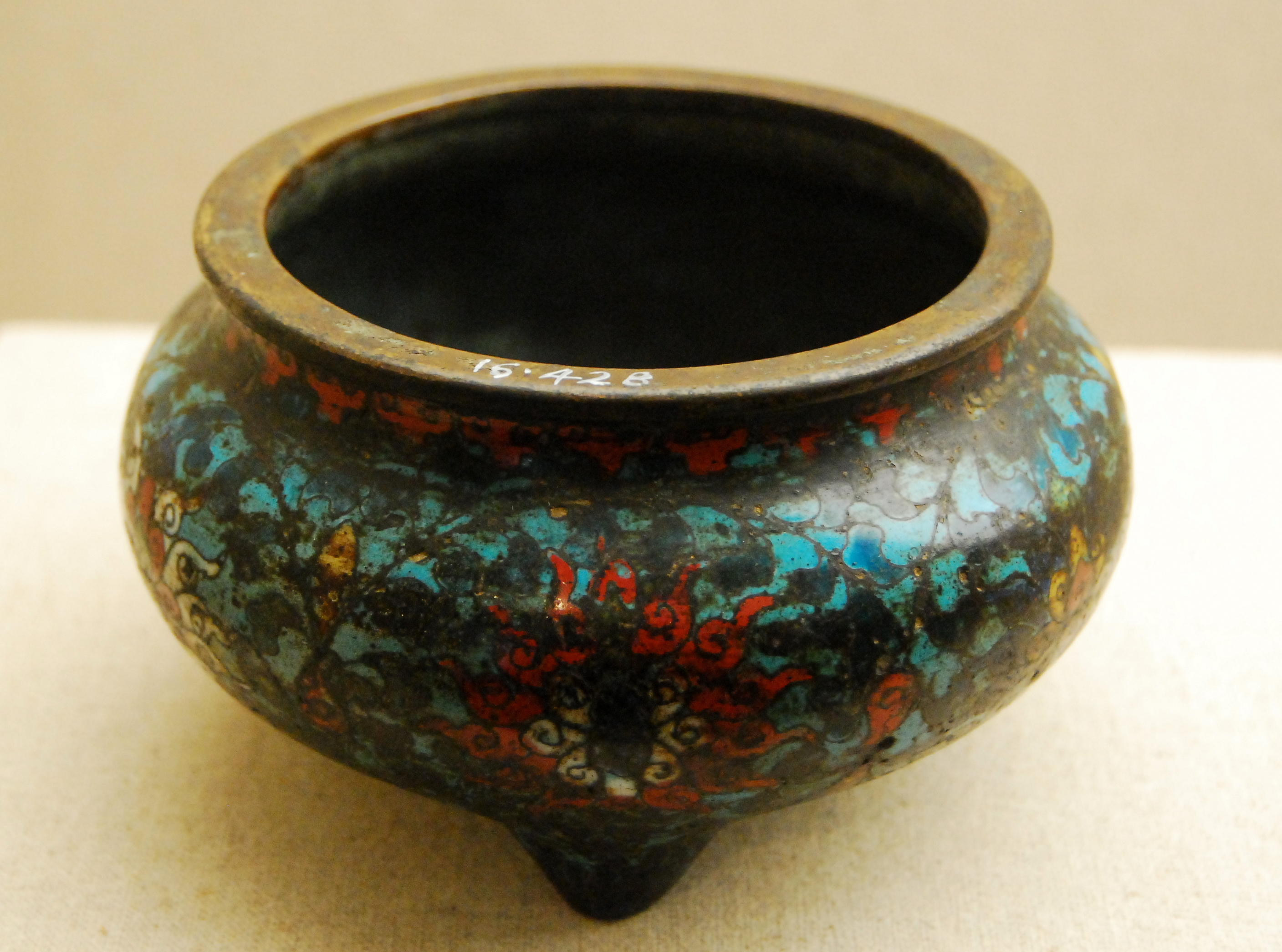 Tripod censer with Jingtai reign mark